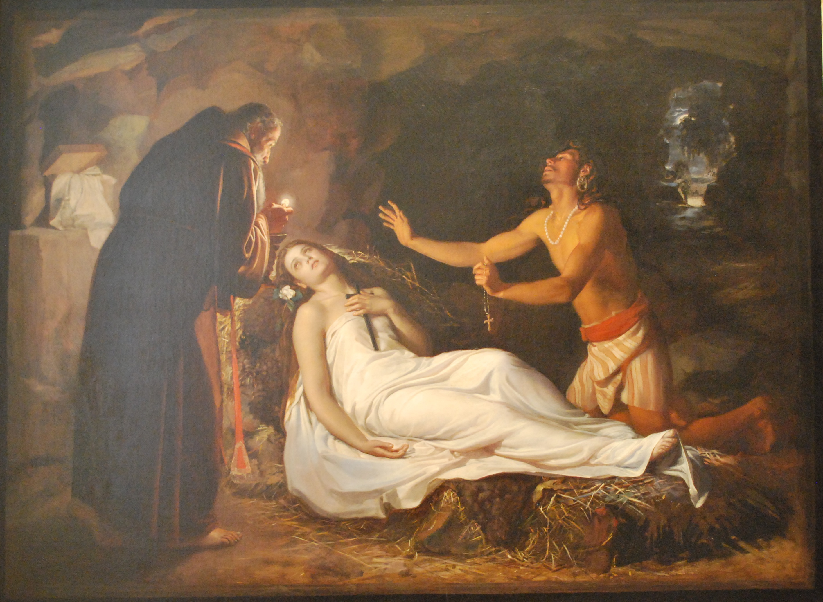 "Ultimos momentos de Atala" by Luis Monroy (1845-1918), painted in 1871. On display at the Museo Nacional de Arte in Mexico City